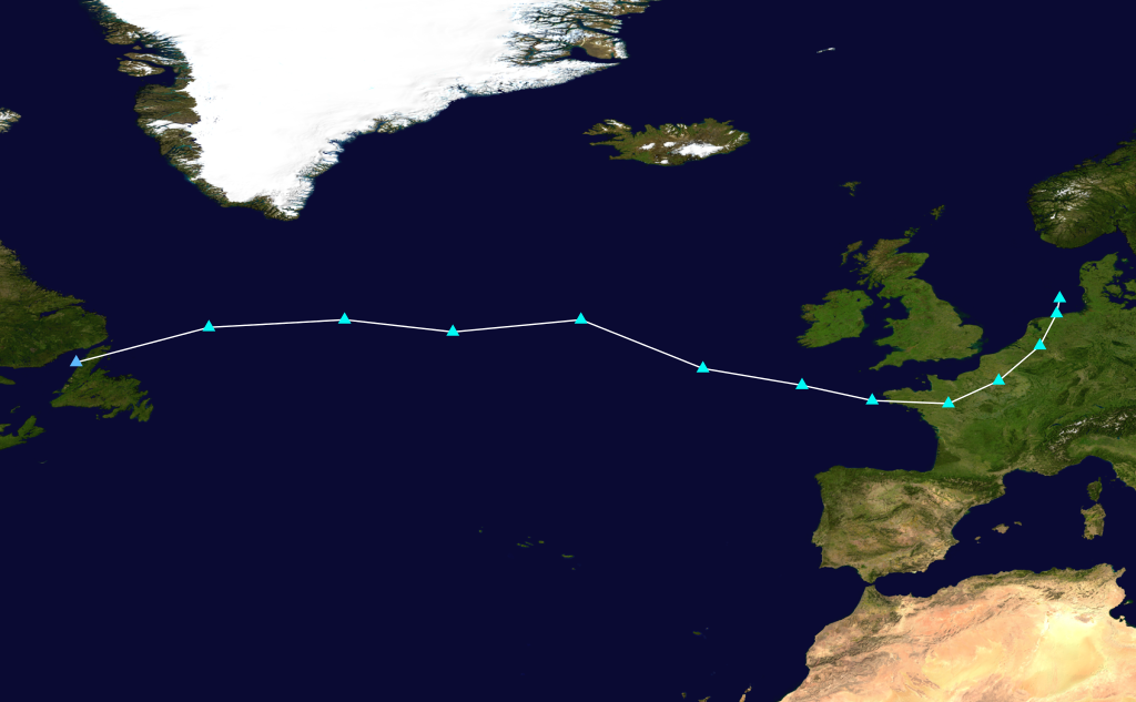 Track map of Storm Amelie of the 2019-20 European windstorm season. The points show the location of the storm at 6-hour intervals. The colour represents the storm's maximum sustained wind speeds as classified in the Saffir–Simpson scale (see below), and the shape of the data points represent the nature of the storm, according to the legend below. Saffir–Simpson scale Tropical depression≤38 mph≤62 km/h Category 3111–129 mph178–208 km/h Tropical storm39–73 mph63–118 km/h Category 4130–156 mph209–251 km/h Category 174–95 mph119–153 km/h Category 5≥157 mph≥252 km/h Category 296–110 mph154–177 km/h Unknown Storm type Tropical cyclone Subtropical cyclone Extratropical cyclone / Remnant low / Tropical disturbance / Monsoon depression